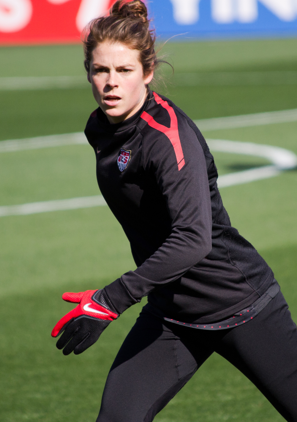 Kelley O'Hara of the United States Women's National Soccer Team in Frisco, Texas